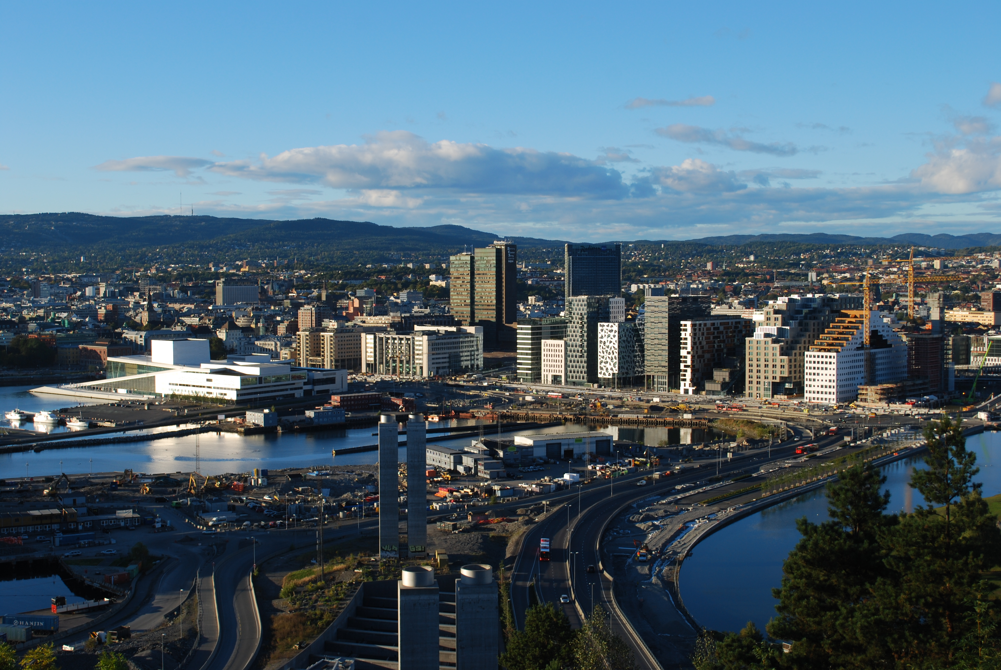 The Barcode building complex and Oslo Opera house seen from Ekeberg